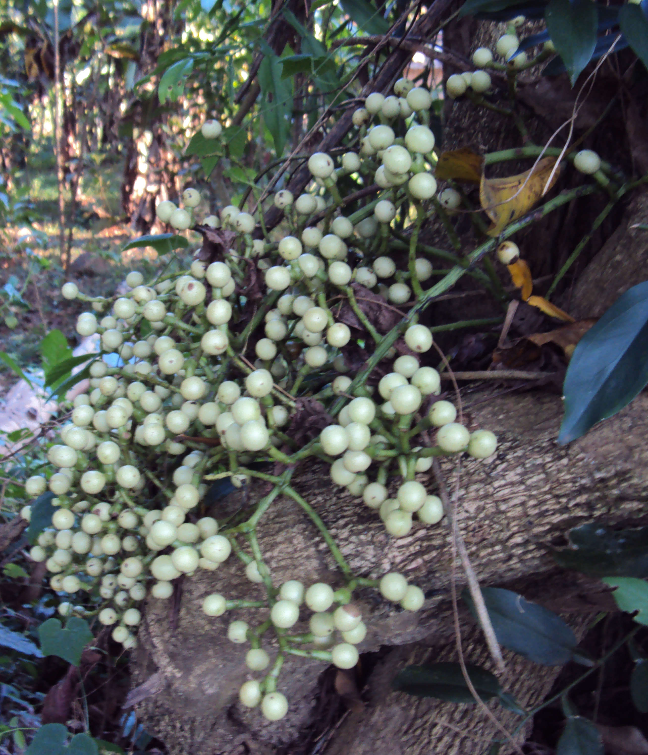 Anamirta cocculus